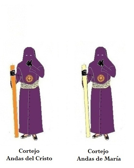 habito Nazareno Dolor y Sacrificio